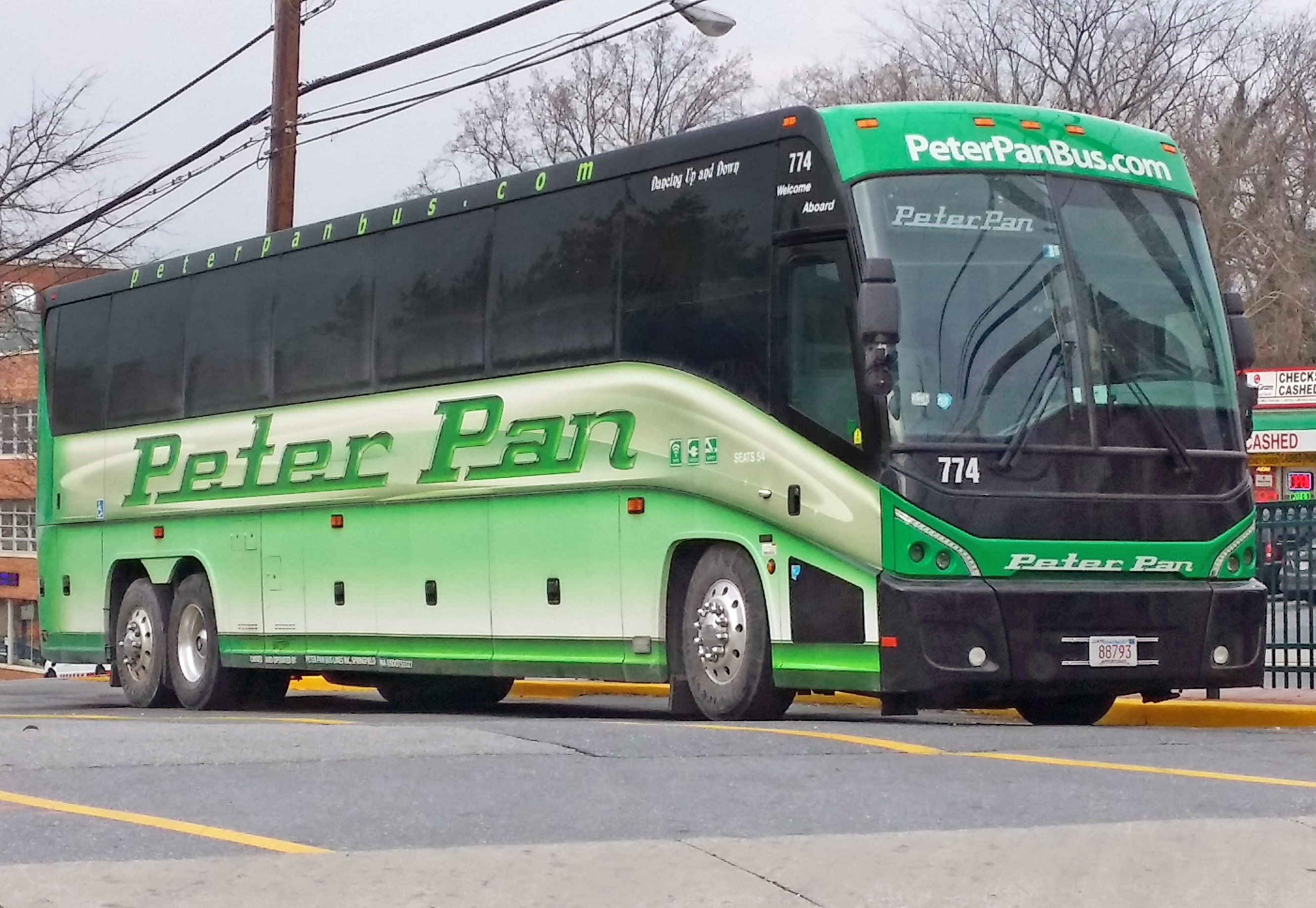 A 2013 model MCI J4500 motorcoach, owned by Peter Pan Bus Lines, photographed at the Silver Spring Terminal in Silver Spring, Maryland.